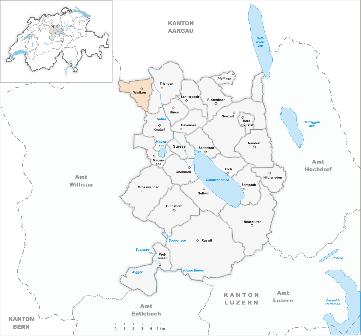 Municipality Winikon